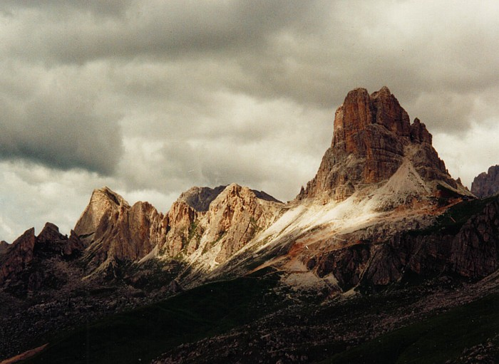 Passo Giau with Averau (left), Nuvolau (center, in front of the Tofana di Rozes) and Gusela (right)